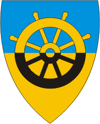 Coats of arms of Tõstamaa Parish